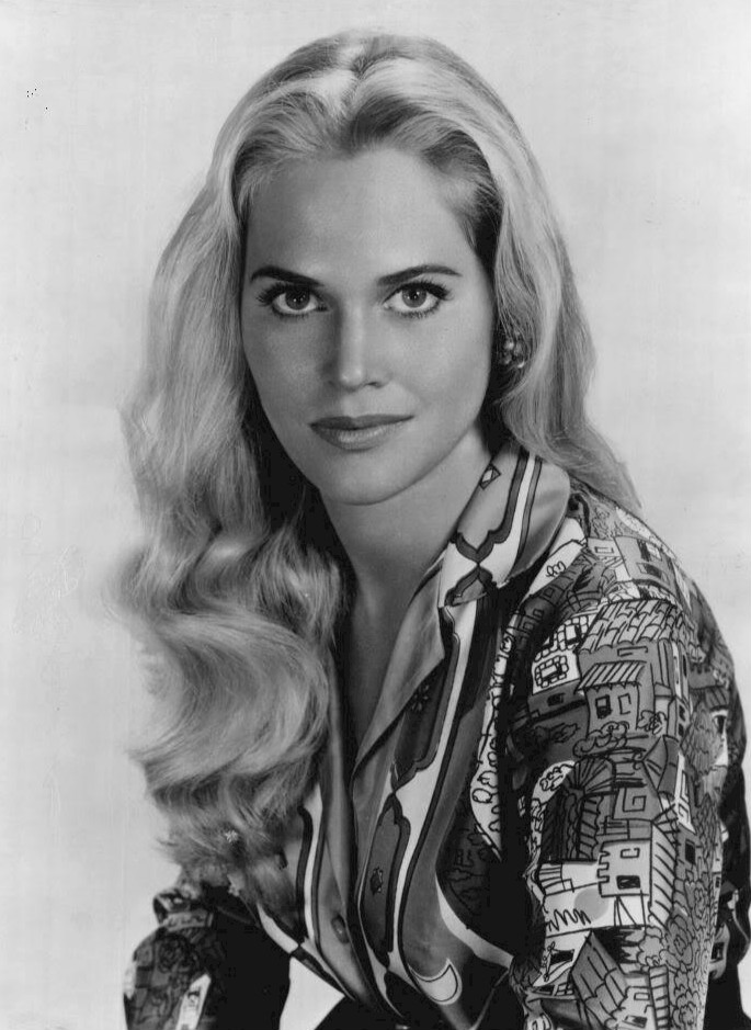 Photo of Nancy Ames from the television program That Was the Week That Was.